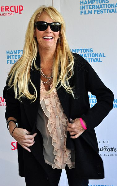 Dina Lohan attends the 19th Annual Hamptons International Film Festival Chariman's Reception on October 15, 2011 at the home of Stuart Suna in East Hampton, New York. (Photo:Nick Stepowyj)